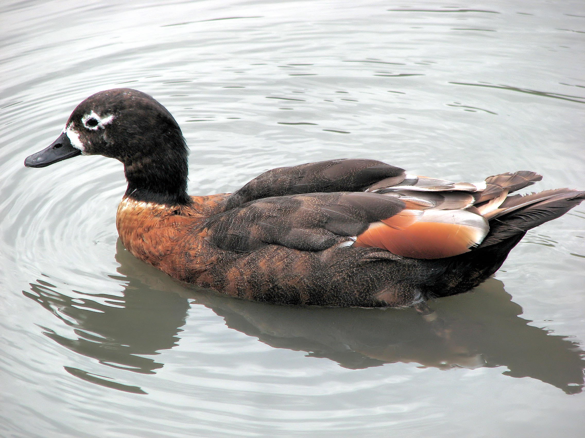 Australian Shelduck Tadorna tadornoides at the Wildfowl and Wetlands Trust, Slimbridge, Gloucestershire, England. Photographed by Adrian Pingstone in June 2006 and placed in the public domain.